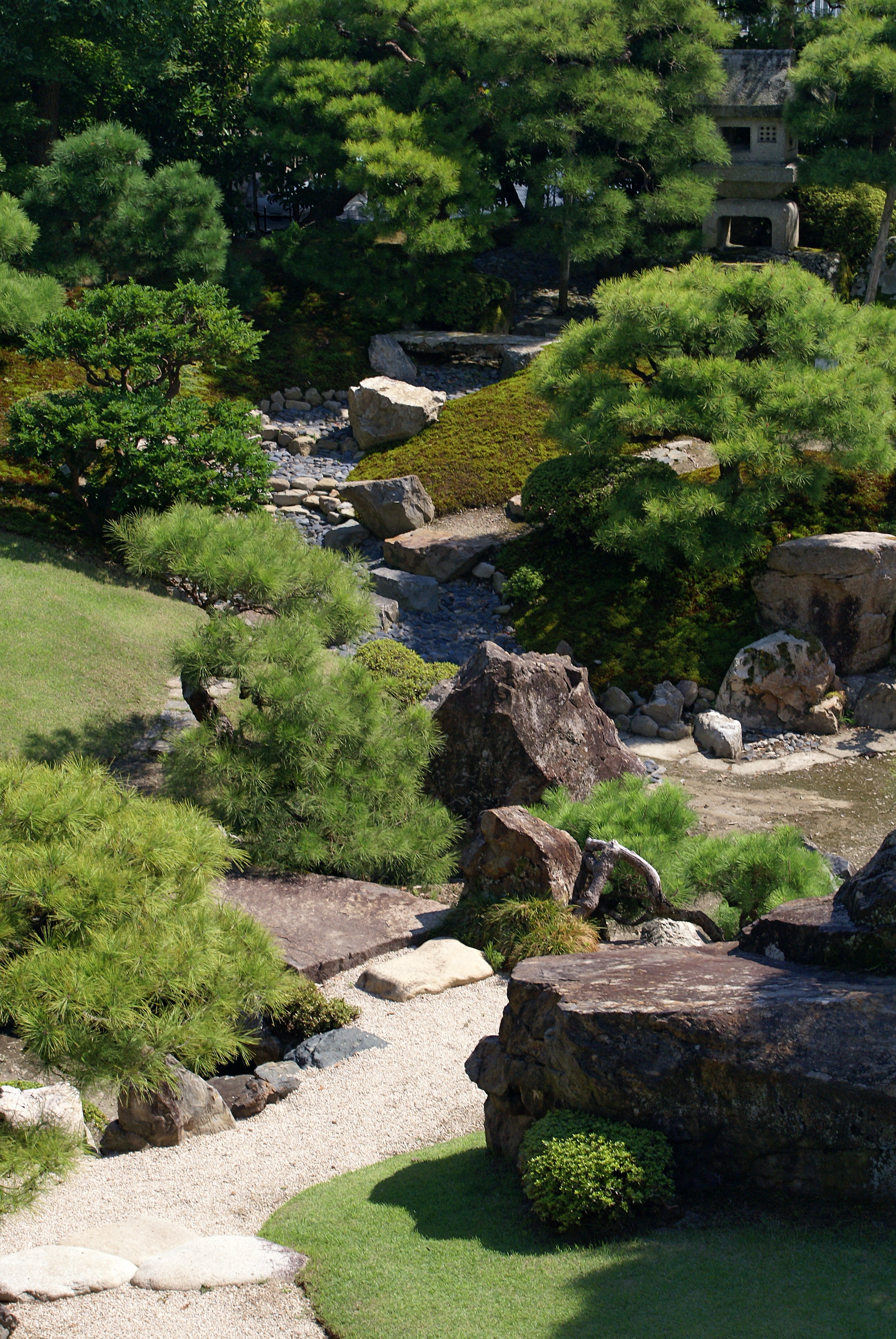 Keiunkan in Nagahama, Shiga prefecture, Japan